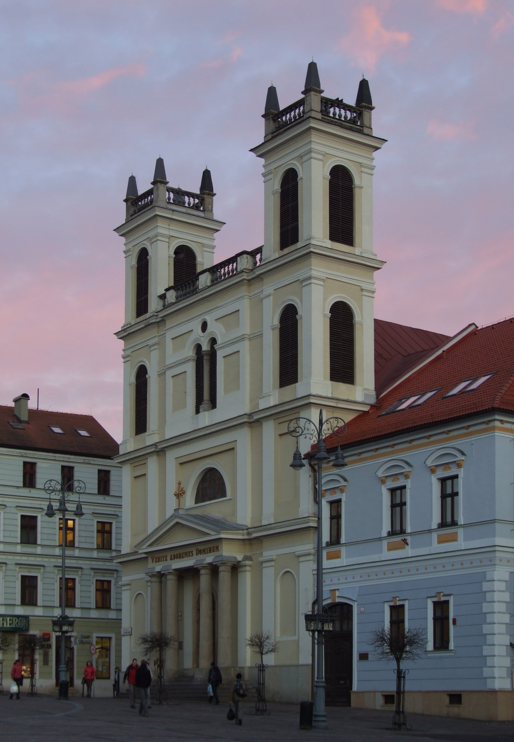 Church St Francis Xavier in Banská Bystrica (Besztercebánya, Neusohl), Slovakia. Former church of the Jesuit Order, now cathedral of the roman-catholic diocese Banská Bystrica.